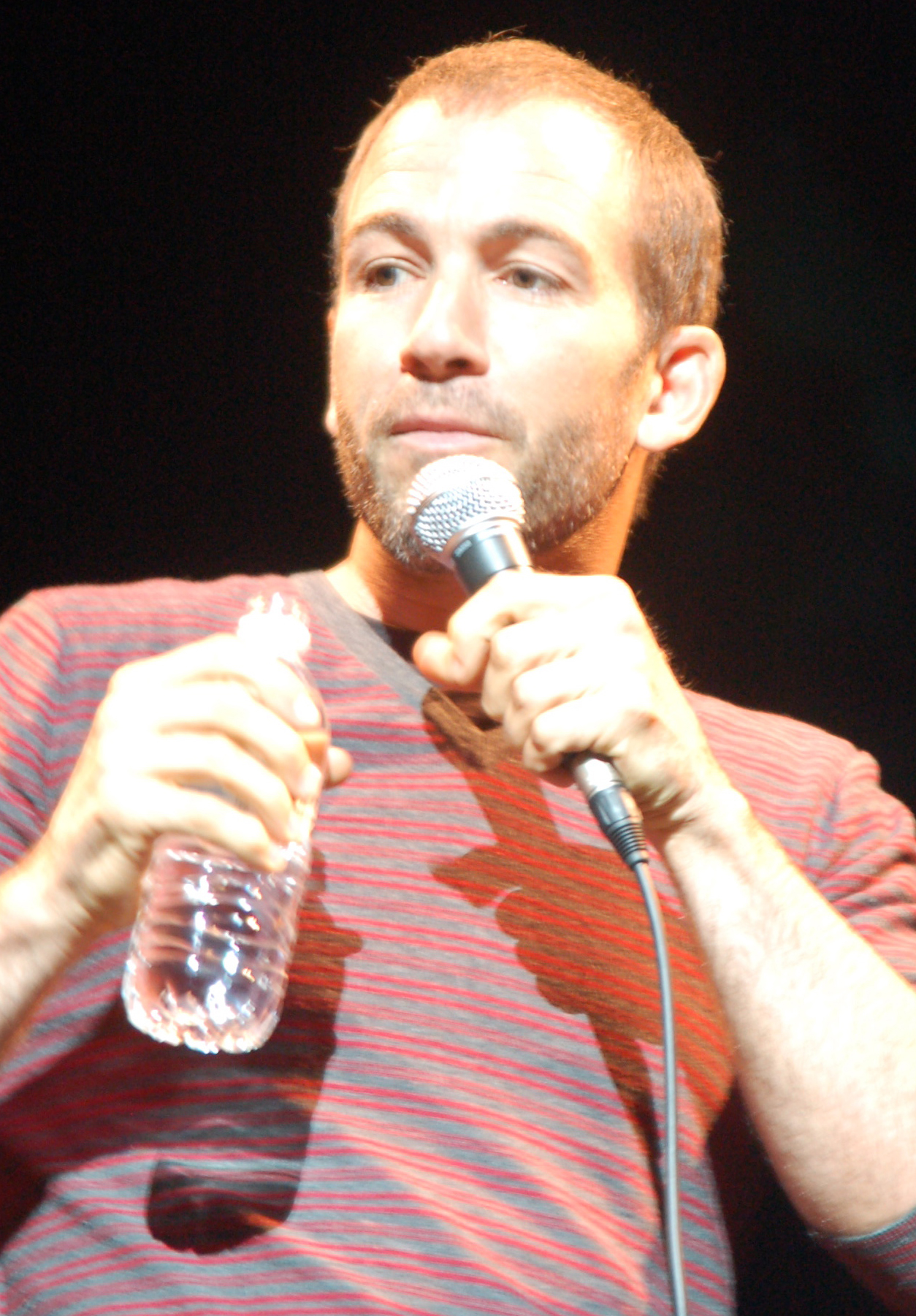 Bryan Callen at the Night of Comedy 9 benefit to support the Children Affected by AIDS Foundation (CAAF) in Beverly Hills, California.